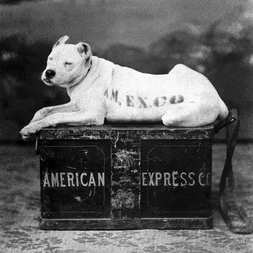 The "watchdog logo" used by American Express to symbolize trust and security.